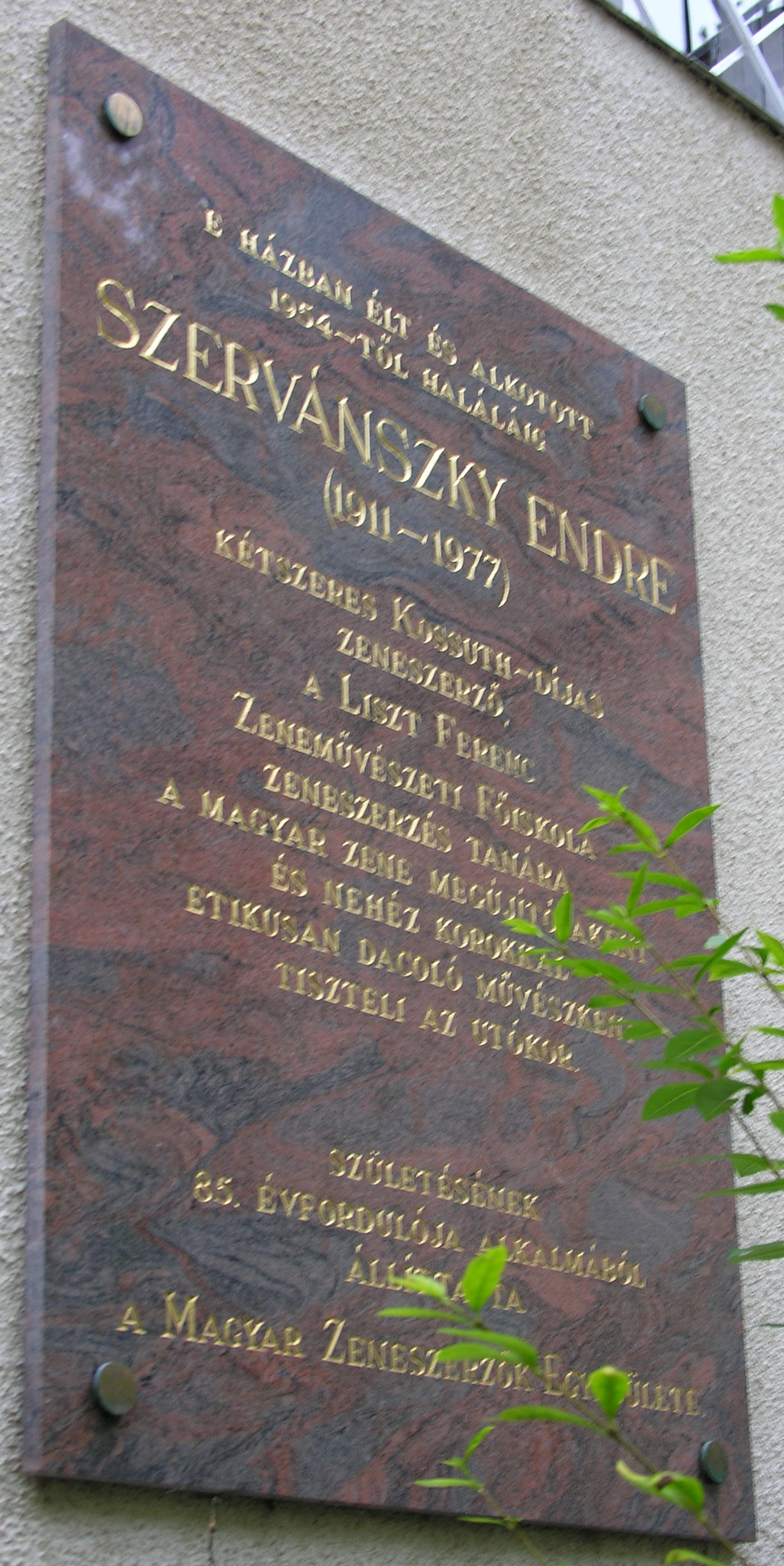 Commemorative plaque of Endre Szervánszky in Budapest District II, Nyúl Street No 18